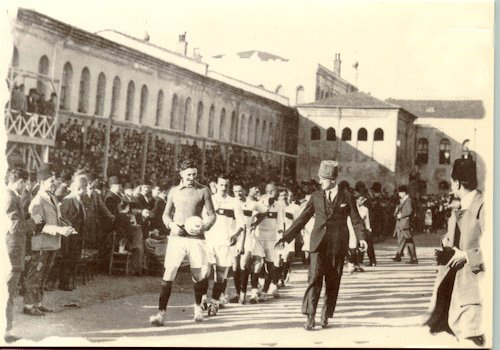 Turkey national football team in their first ever match against Romania in Taksim Stadium, Istanbul (26 October 1923).